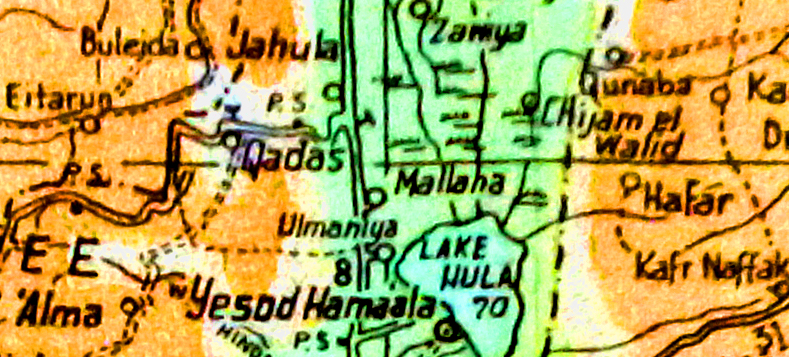 Qadas, Palestine 1946